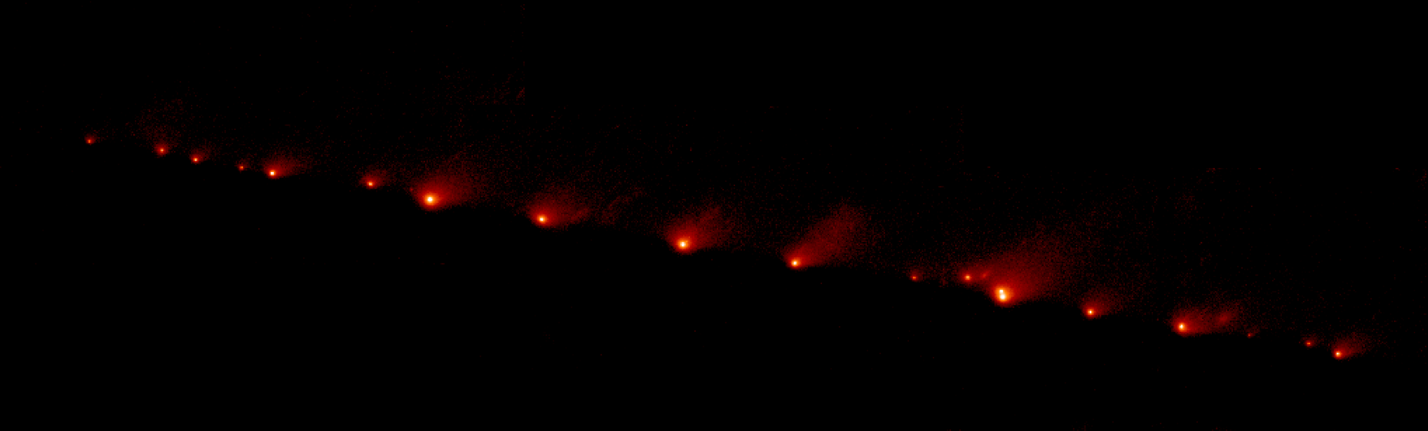 A NASA Hubble Space Telescope (HST) image of comet Shoemaker-Levy 9, taken on May 17, 1994, with the Wide Field Planetary Camera 2 (WFPC2) in wide field mode. When the comet was observed, its train of 21 icy fragments stretched across 1.1 million km (710 thousand miles) of space, or 3 times the distance between Earth and the Moon. This required 6 WFPC exposures spaced along the comet train to include all the nuclei. The image was taken in red light. The comet was approximately 660 million km (410 million miles) from Earth when the picture was taken, on a mid-July collision course with the gas giant planet Jupiter.